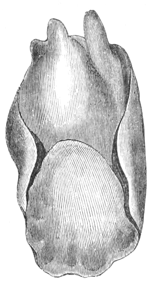 Illustration from Natural History: Mollusca (1854), p. 147 - "The Gaping Bulla" (Philine aperta).